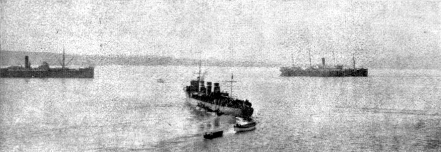 The destroyer HMS Scourge towing boats ashore during the landing at Anzac Cove, 25 April 1915. The infantry transferred to the boats when 200 yards from shore.